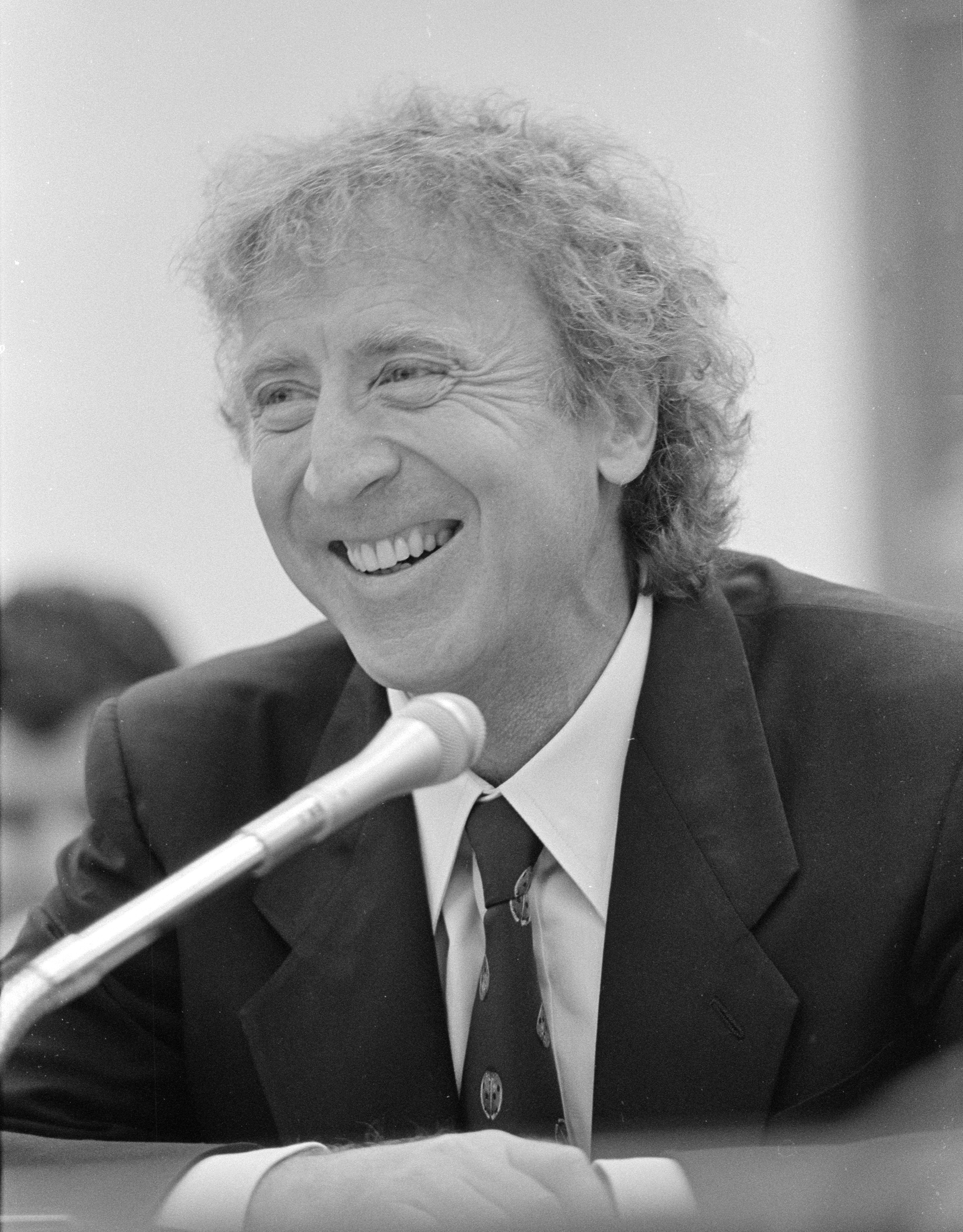 Gene Wilder, head-and-shoulders portrait, facing front, speaking in front of a United States House of Representatives Appropriations subcommittee on ovarian cancer research